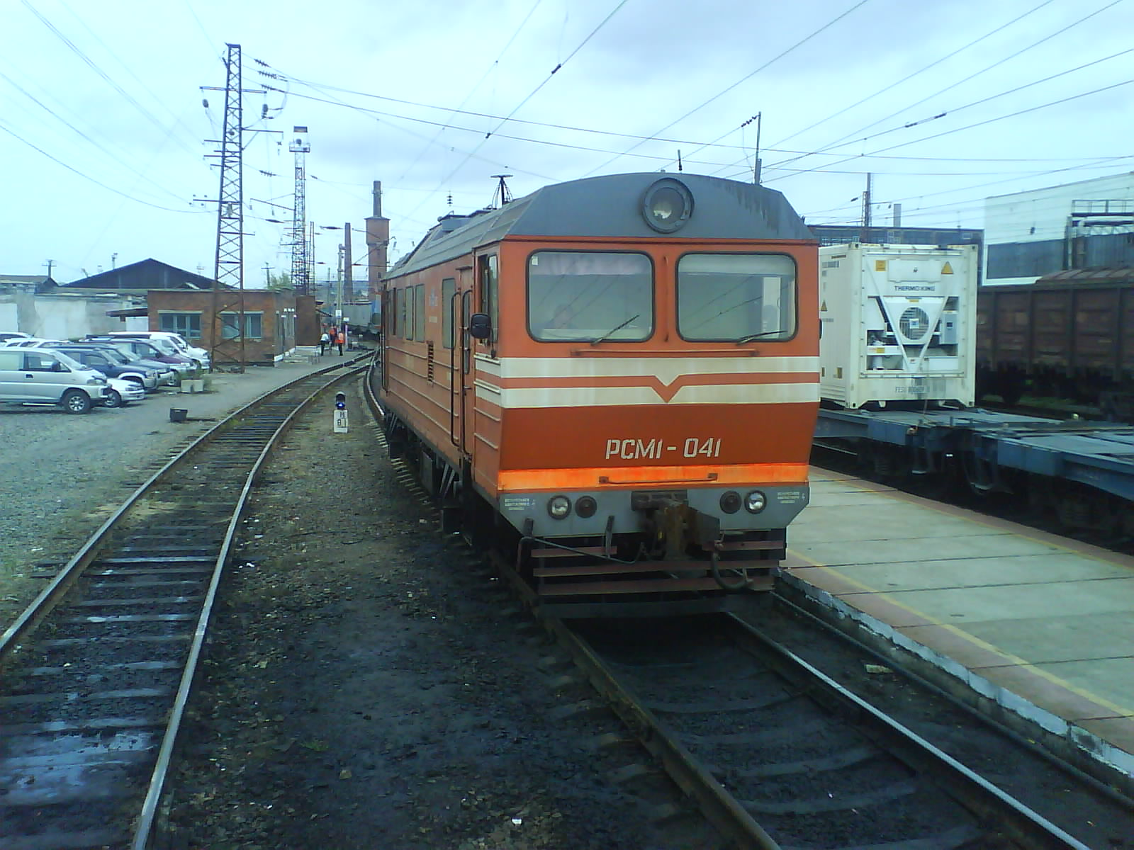 Rail-lubricator